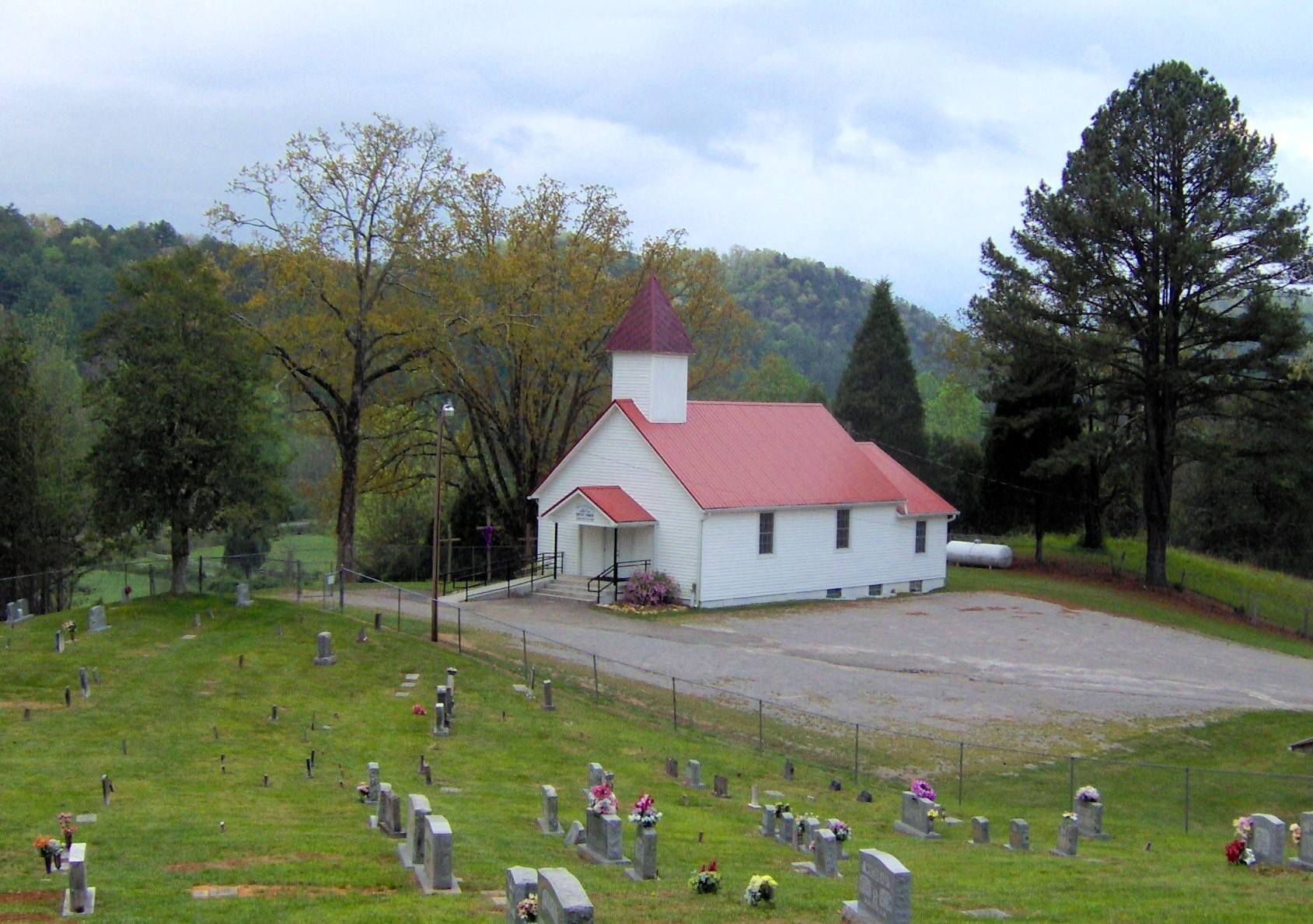 The Chilhowee Primitive Baptist Church, nicknamed "Red Top," in Happy Valley, Tennessee, in the southeastern United States. The church was constructed 1905-1906. Its cemetery contains the graves of the valley's earliest settlers.